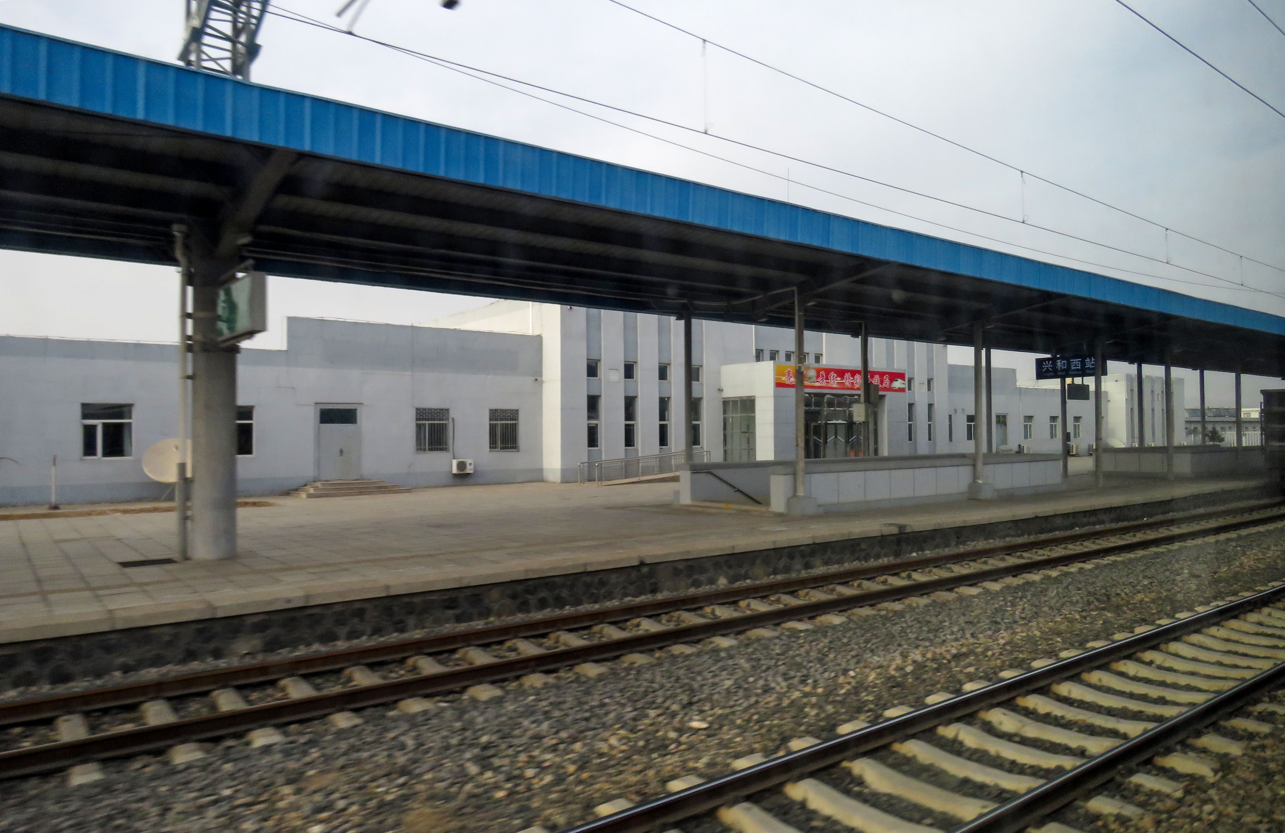 K618 only?